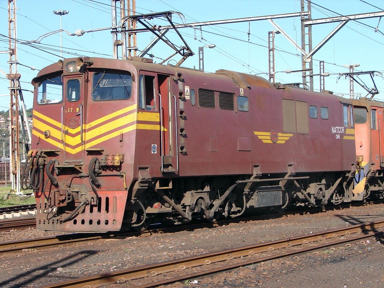 SAR Class 6E1 Series 7 E1798 Location: Bayhead Yard, Durban, Kwa-Zulu Natal Rebuilding: In 2009 E1798 was withdrawn from service and rebuilt to Class 18E 18-500